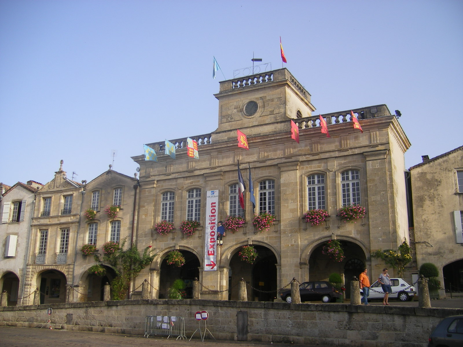 Bazas town hall